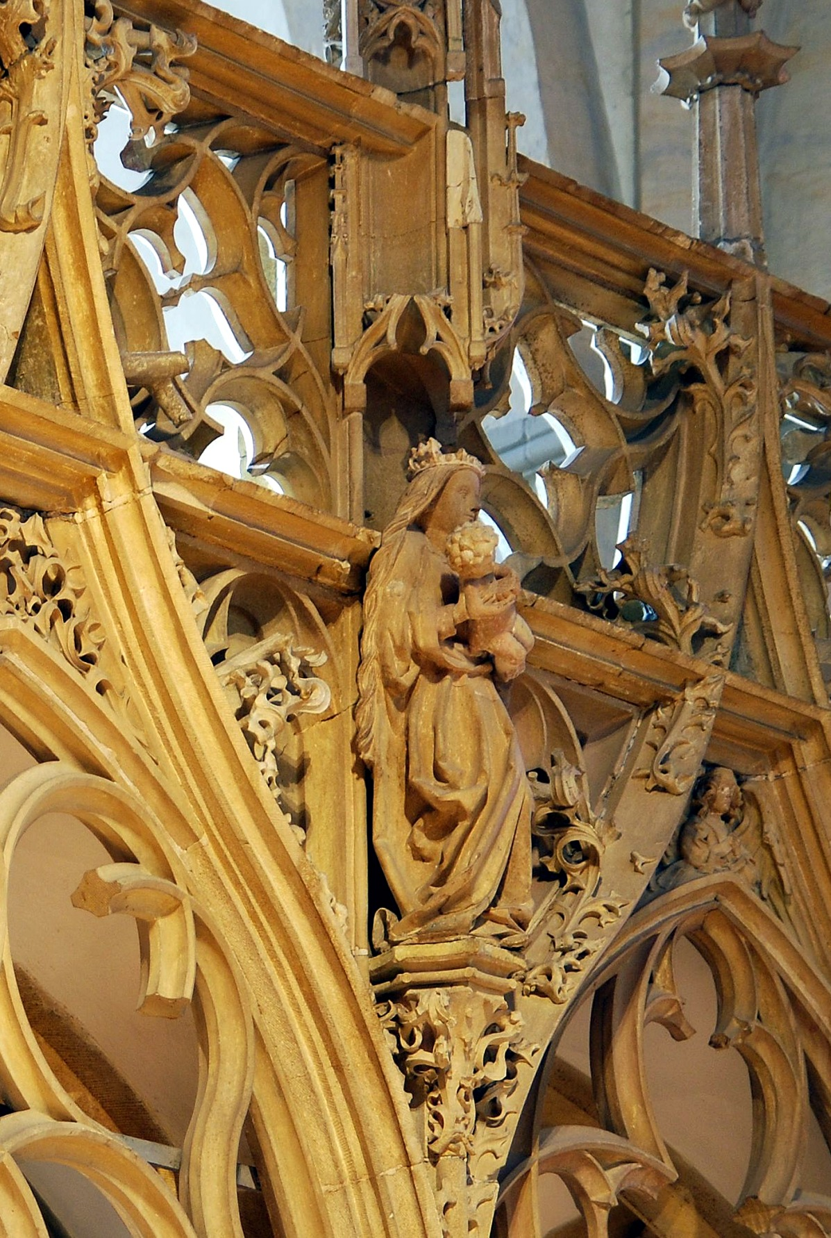 Breisach Minster rood screen detail (Mary with child).